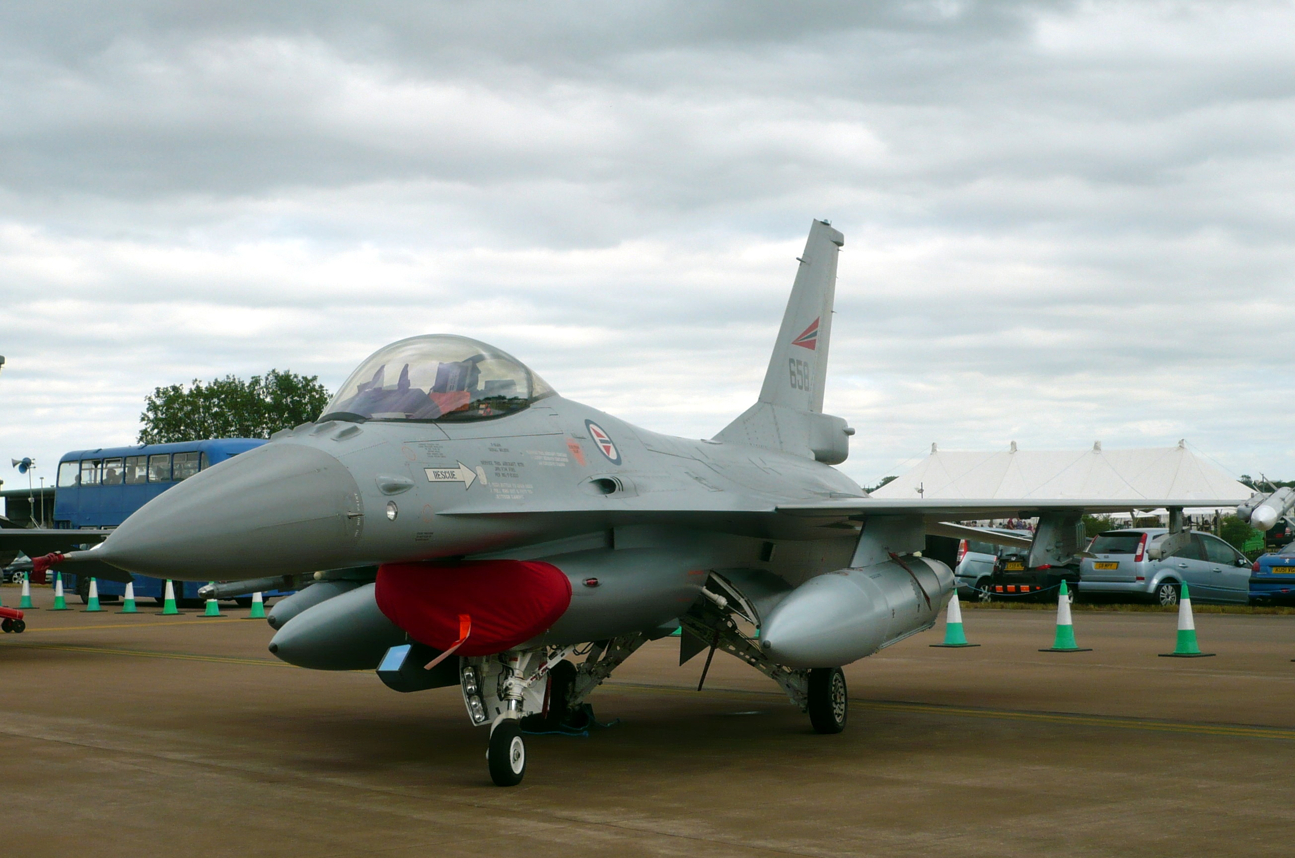 Fokker F-16AM Fighting Falcon of the Royal Norwegian Air Force at RIAT 2010.